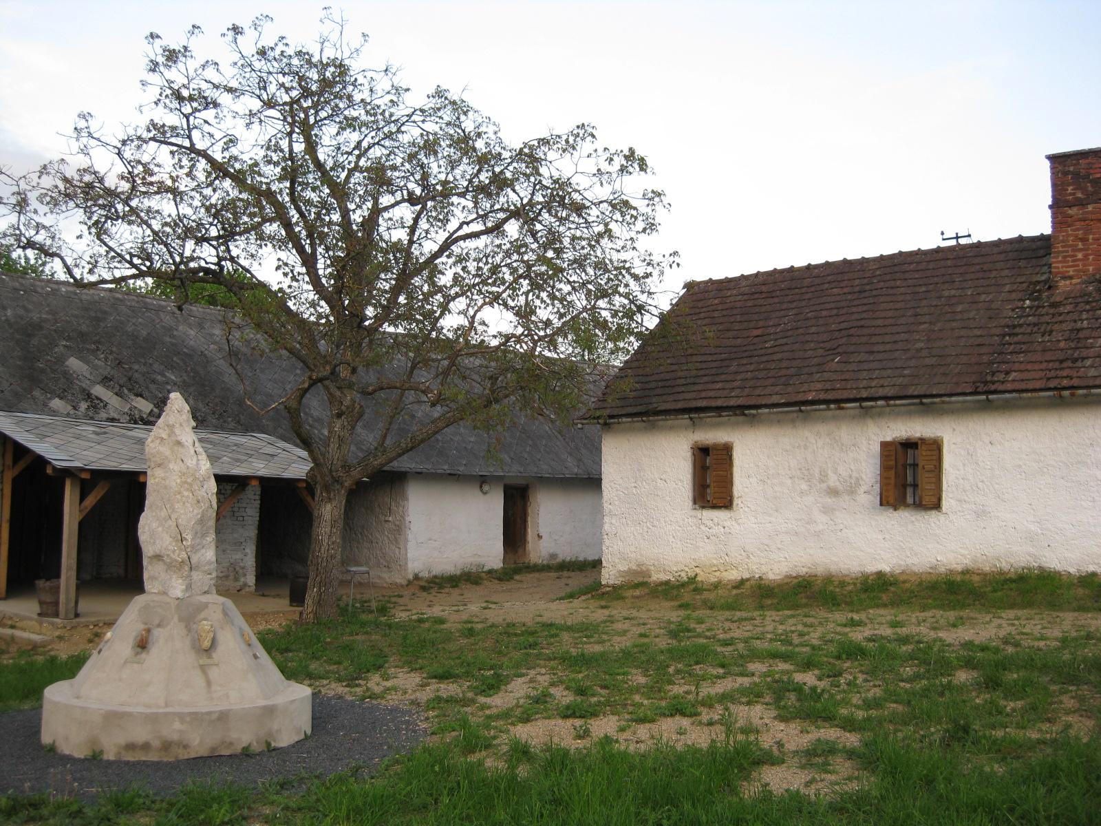 Orfalu (Andovci), "Mali Triglav", monument of Slovenes in Hungary